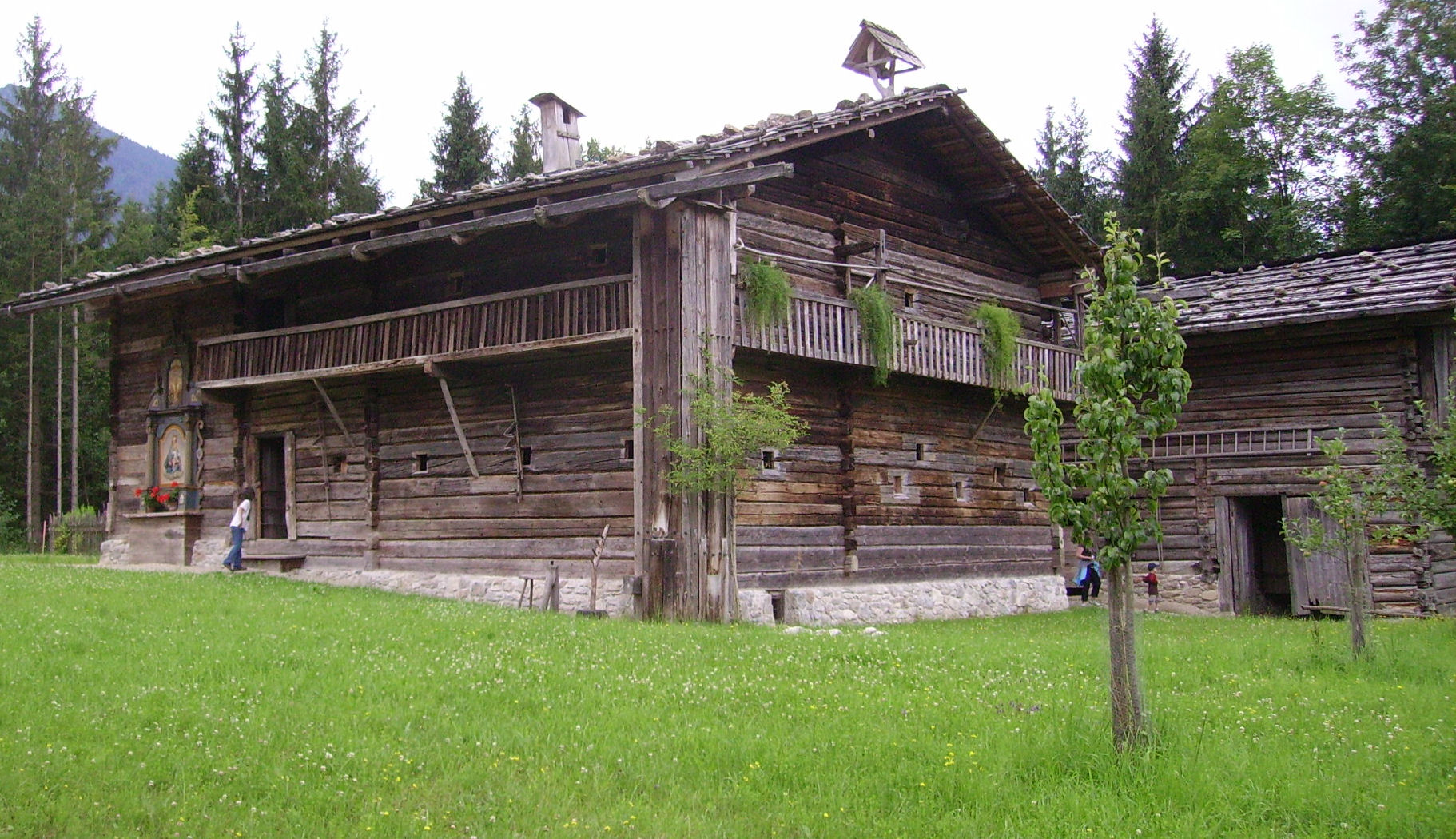 Freilichtmuseum Salzburg in Austria, the Taxbauernhaus from the Pongau